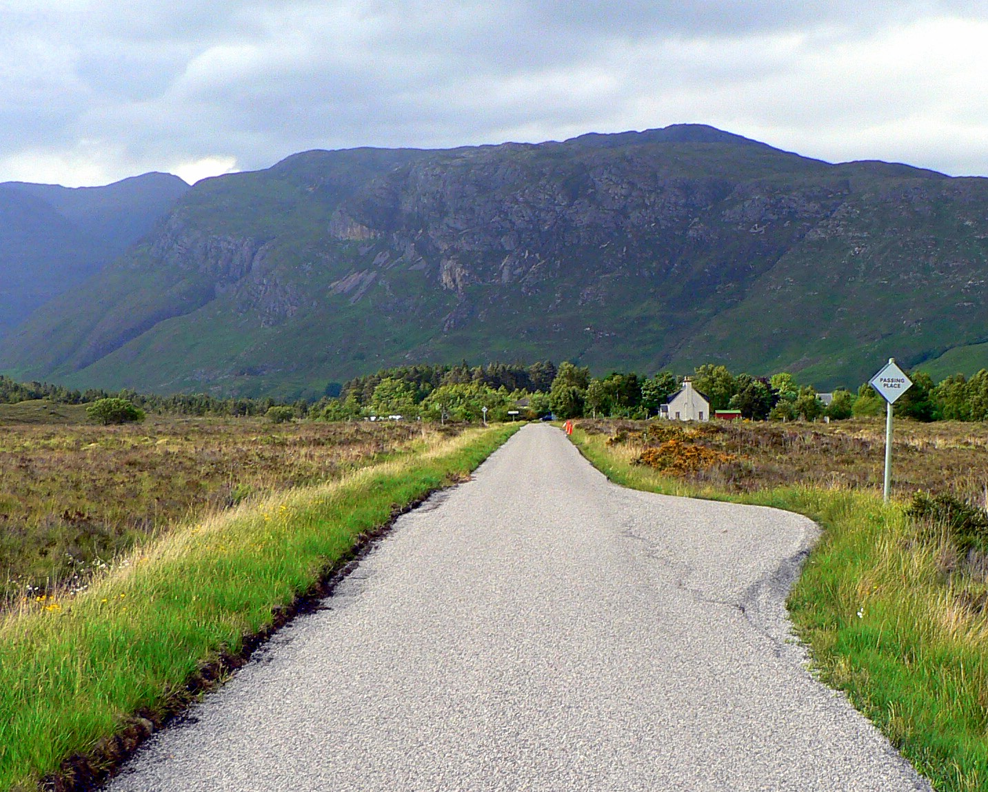 Single-track road near Kinlochewe in Torridon, Scotish Highlands.